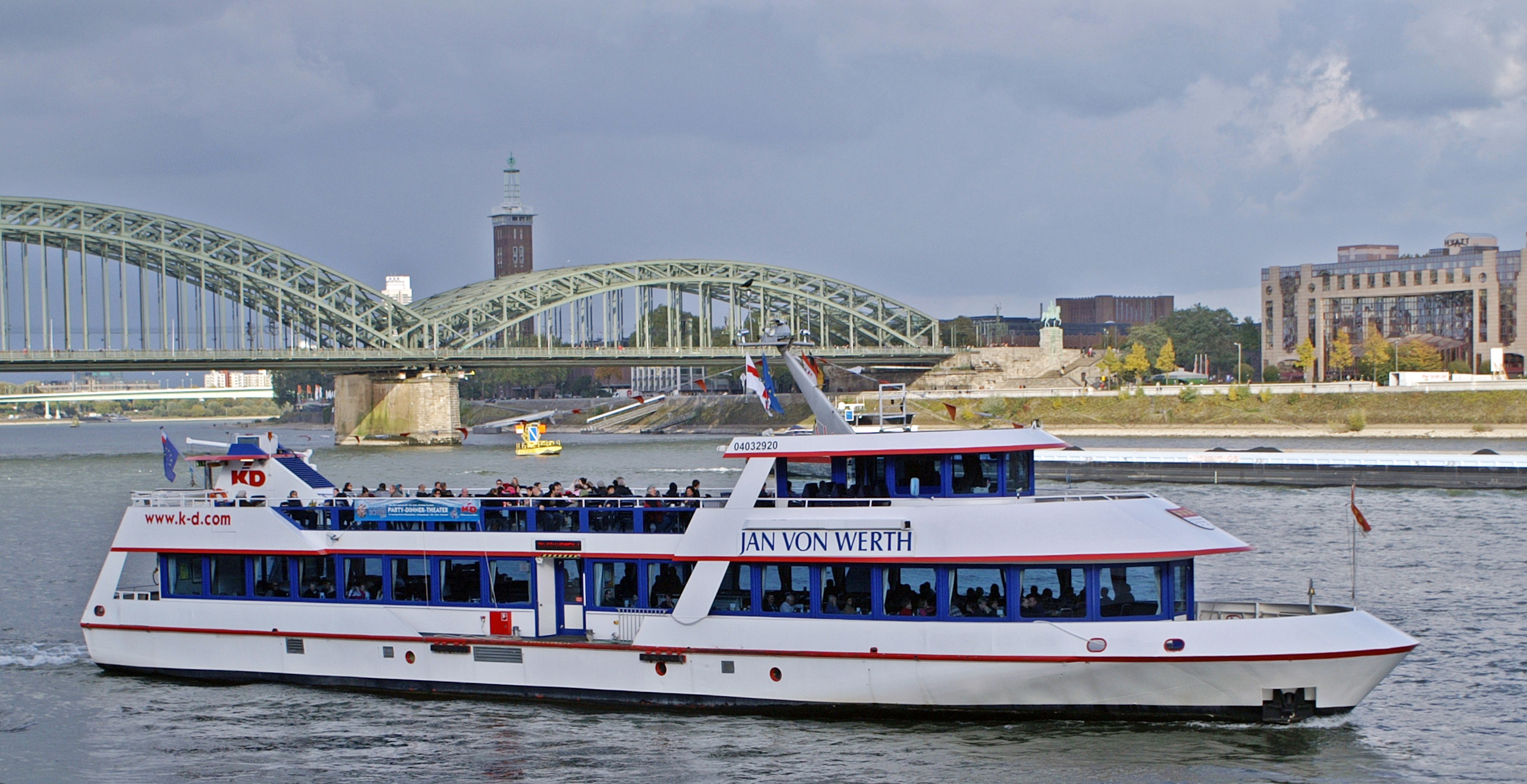 MS Jan von Werth on tour in the near of the jetty in cologne.